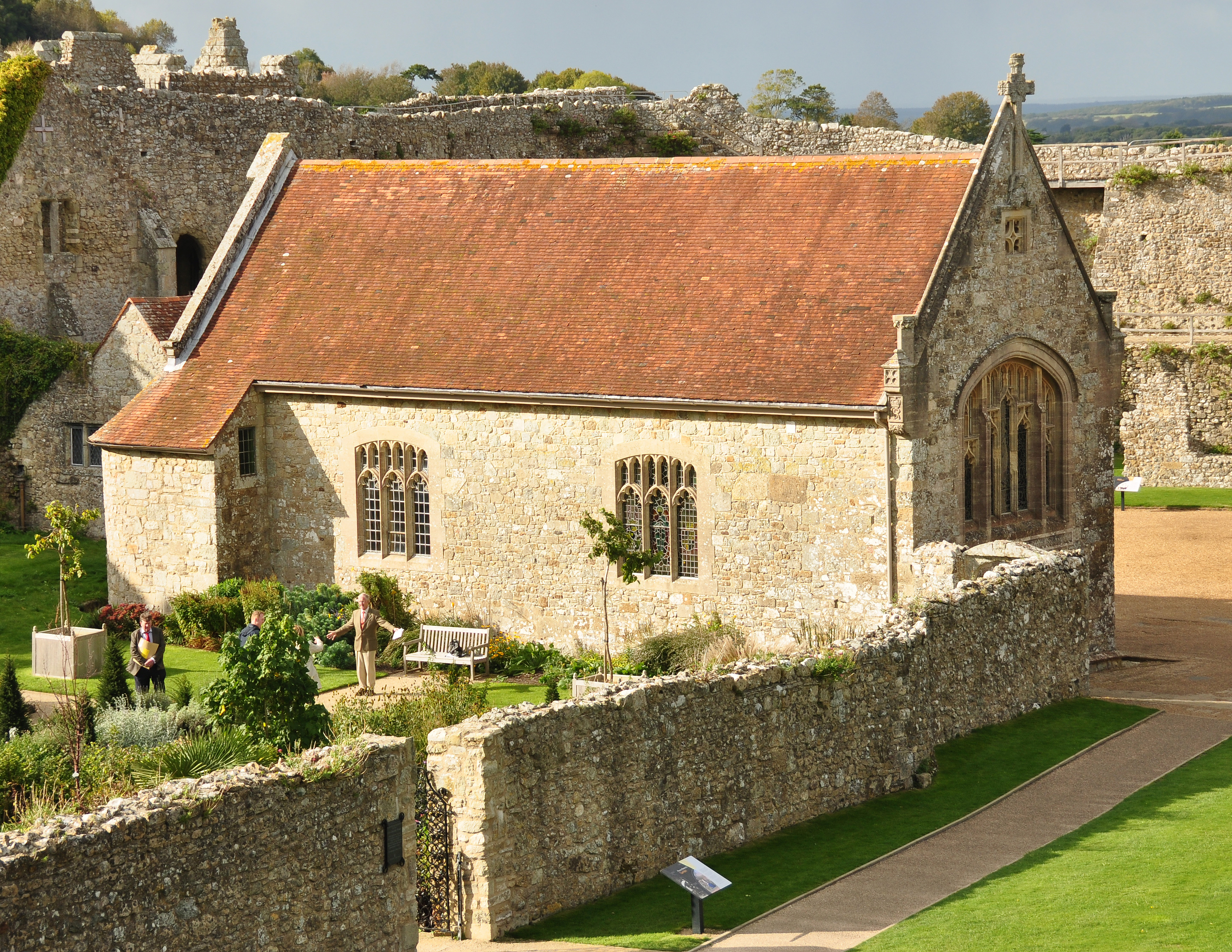 The chapel in Carisbrooke Castle on the Isle of Wight, seen from the south east.